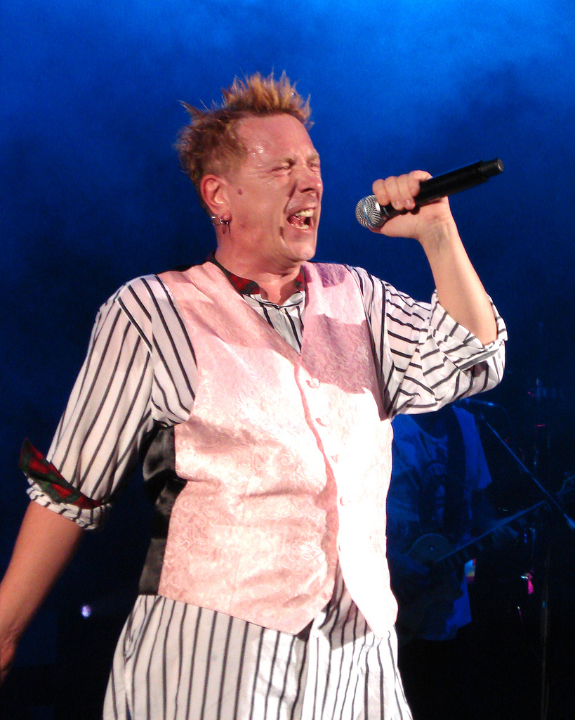 John Lydon - Sex Pistols Live 2008